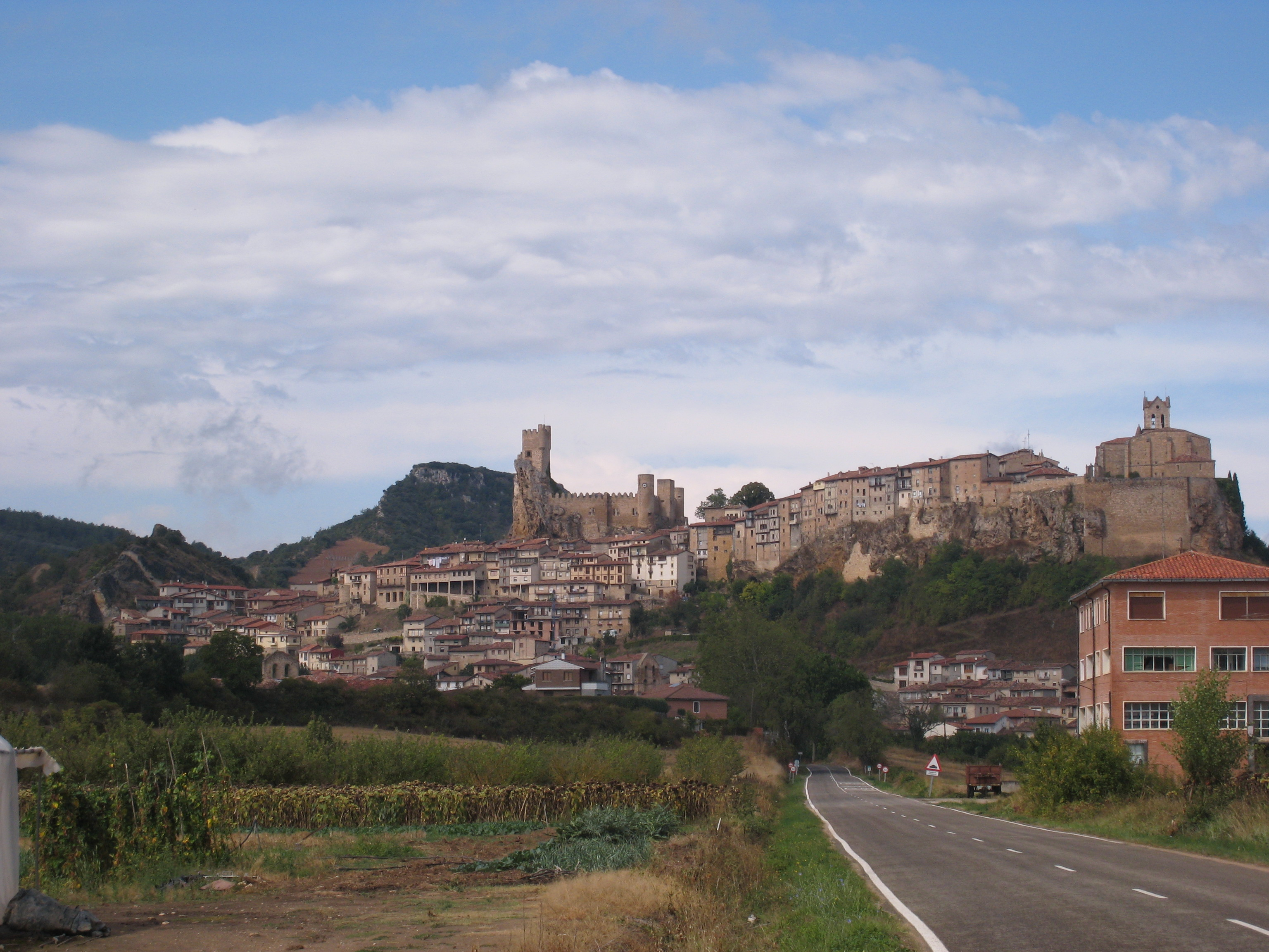 Google Maps - Google Earth